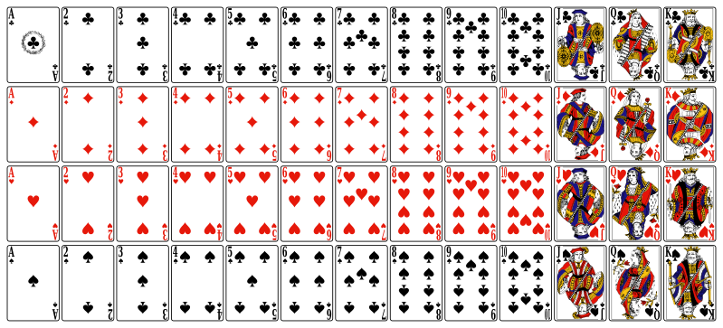 deck of cards